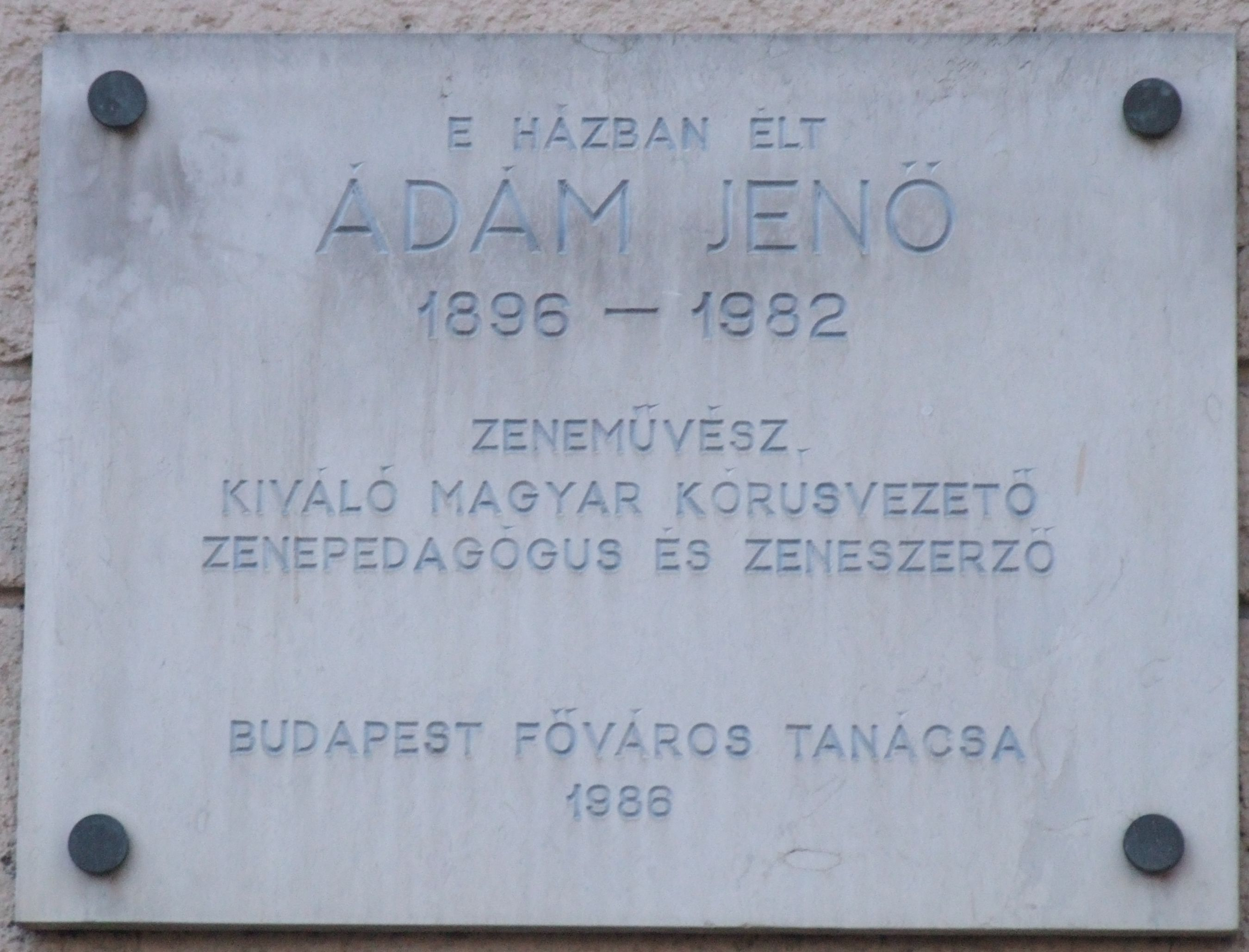 Commemorative plaque of Jenő Ádám, Budapest District XII, Széll Kálmán Square No 14